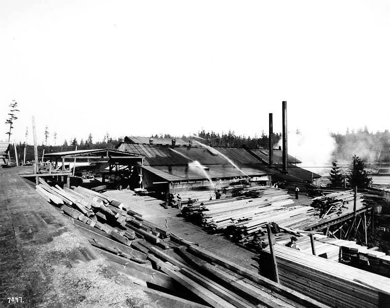 Exterior view of shingle mill. Subjects (LCTGM): Lumber--Washington (State)--Edmonds; Mills--Washington (State)--Edmonds; Lumber industry--Washington (State)--Edmonds; Industrial facilities--Washington (State)--Edmonds Subjects (LCSH): Great Western Lumber Company (Edmonds, Wash.)